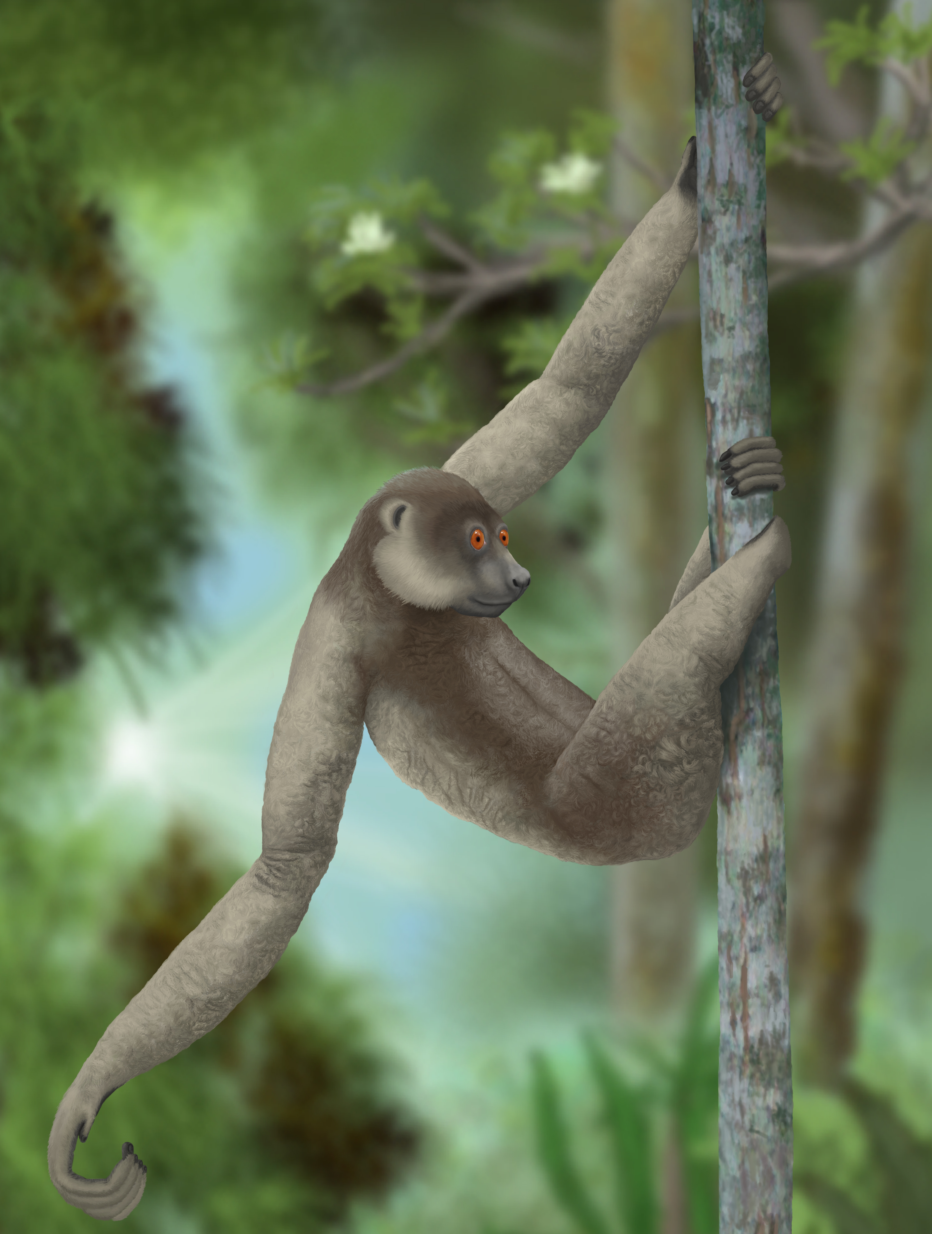 Life restoration of Palaeopropithecus ingens. Based on figure 6.2 and figure 6.6 of "Lemurs: Old and New" by E. L. Simons in Natural Change and Human Impact in Madagascar (Washington and London: Smithsonian Institution Press pp. 142-166), and correspondence with Dr. Laurie Godfrey.